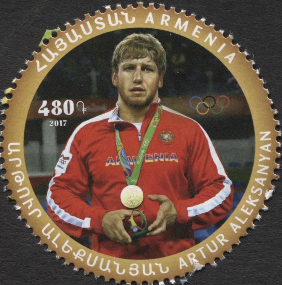 Sport - Armenian Olympic Champions - Artur Aleksanyan